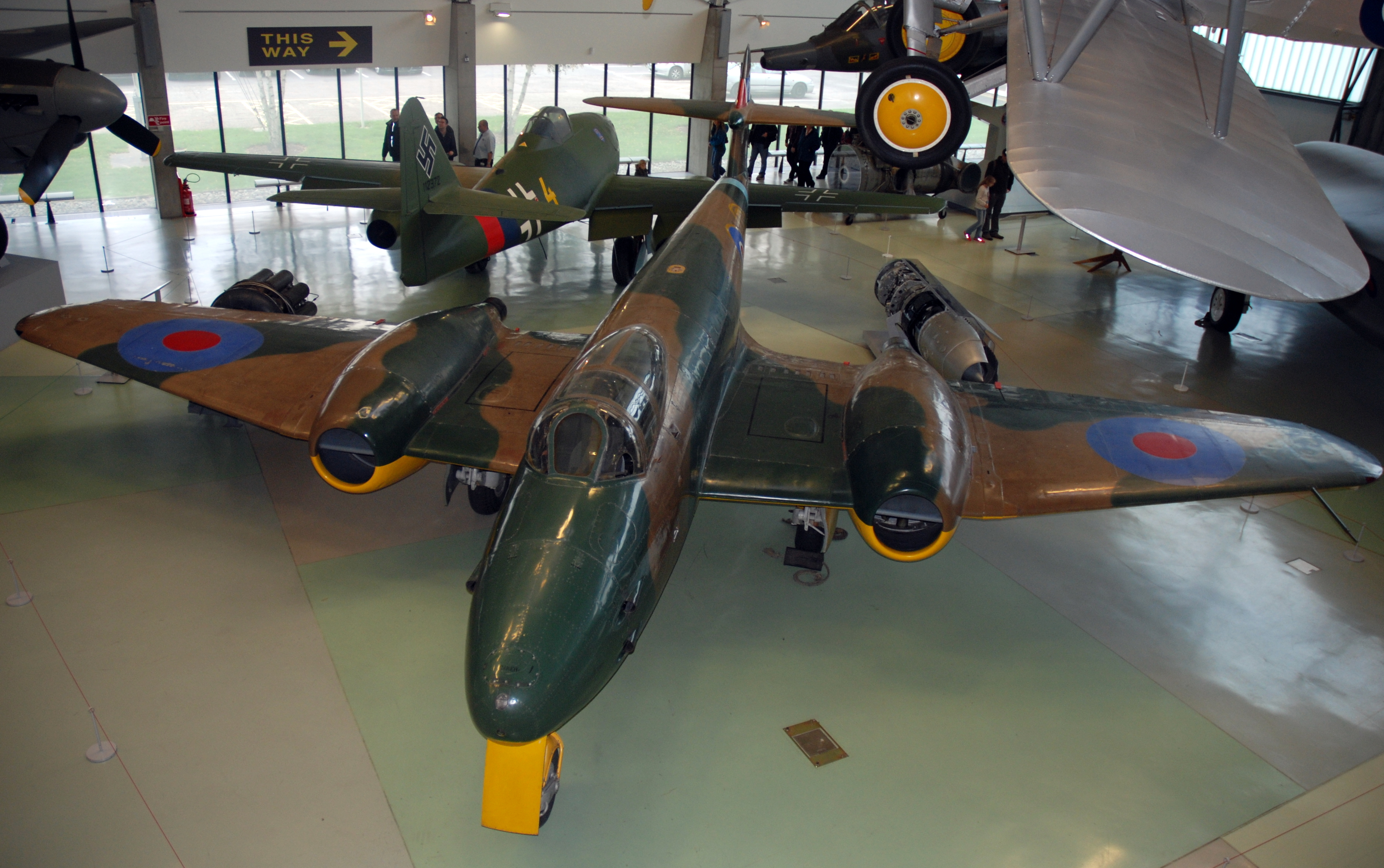 Photo ref; Nikon-D80-2015-DSC_0774 (Edited)